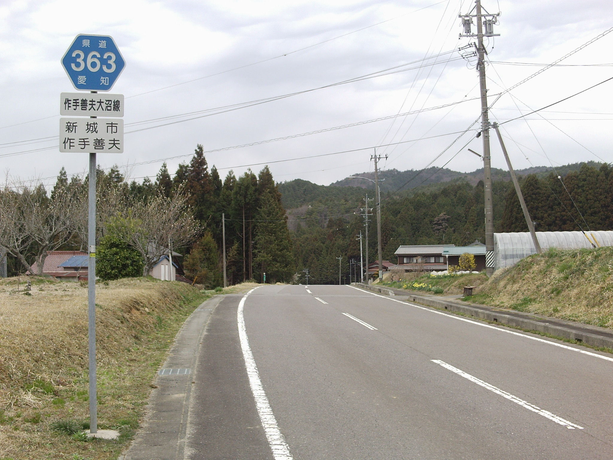 Aichi prefectural road No.363 in TsukudeZenbu, Shinshiro, Aichi.